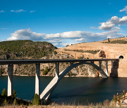 The Contreras Railway Viaduct in Spain